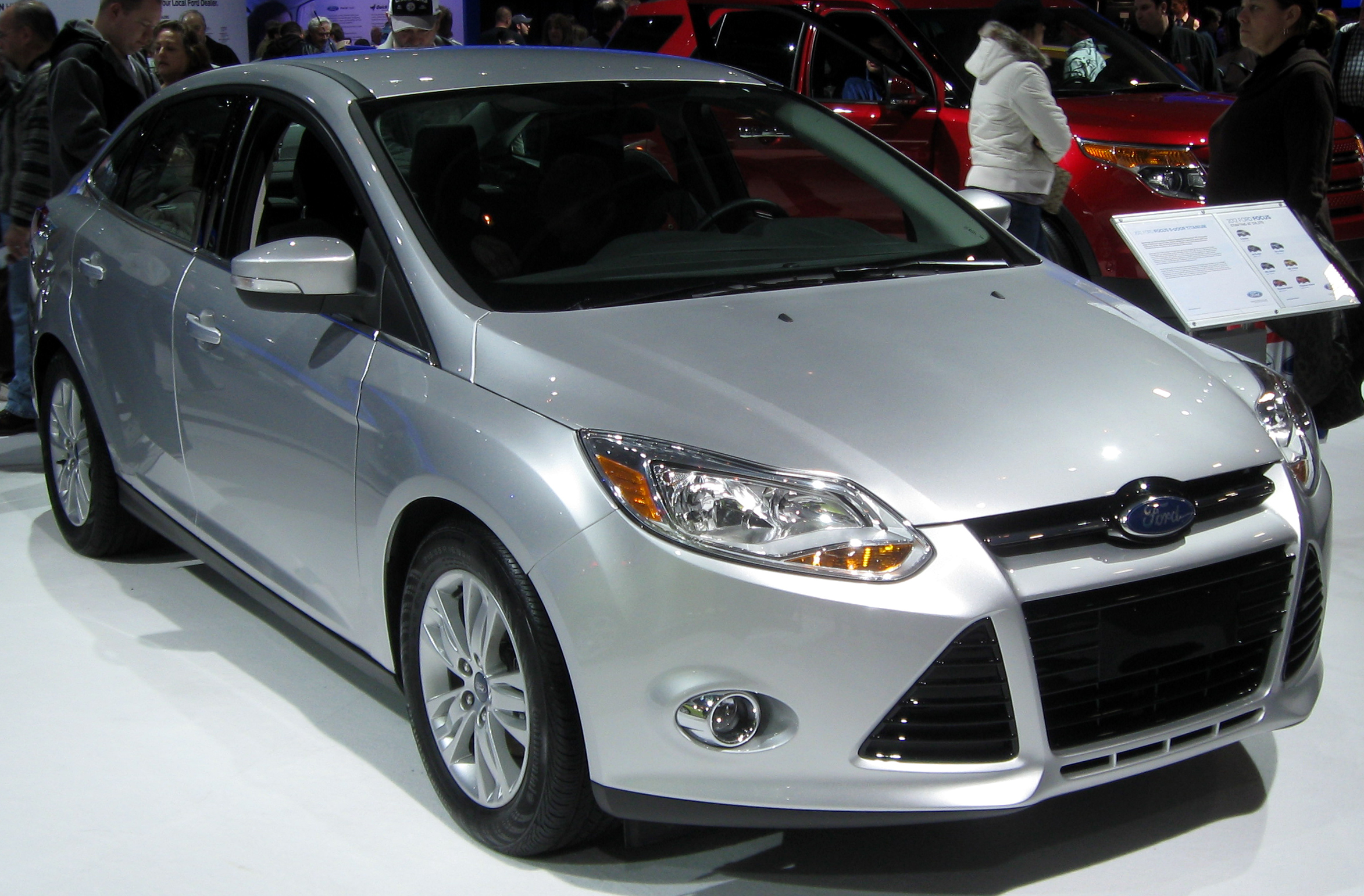 2012 Ford Focus photographed at the 2011 Washington (D.C.) Auto Show.